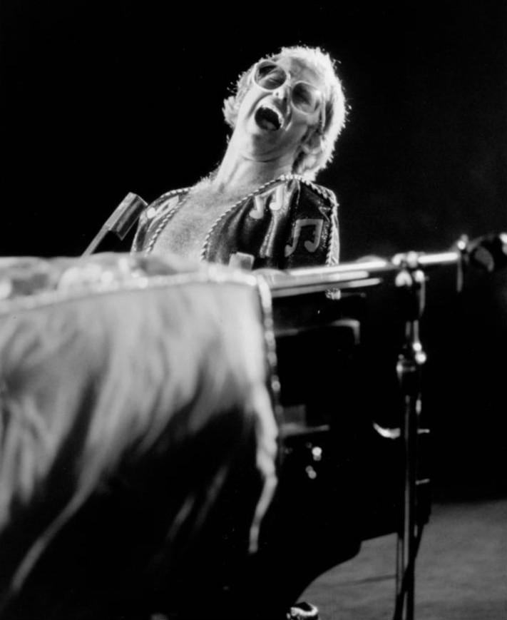 Publicity photo of Elton John from a 1974 ABC-TV special.